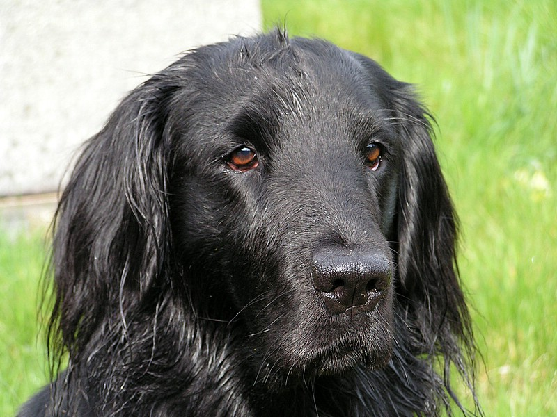 A portrait of a Flat-coated Retriever named Molly.